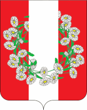 Coat of arms of Burakovski, Korenovsk Raion, Russia.